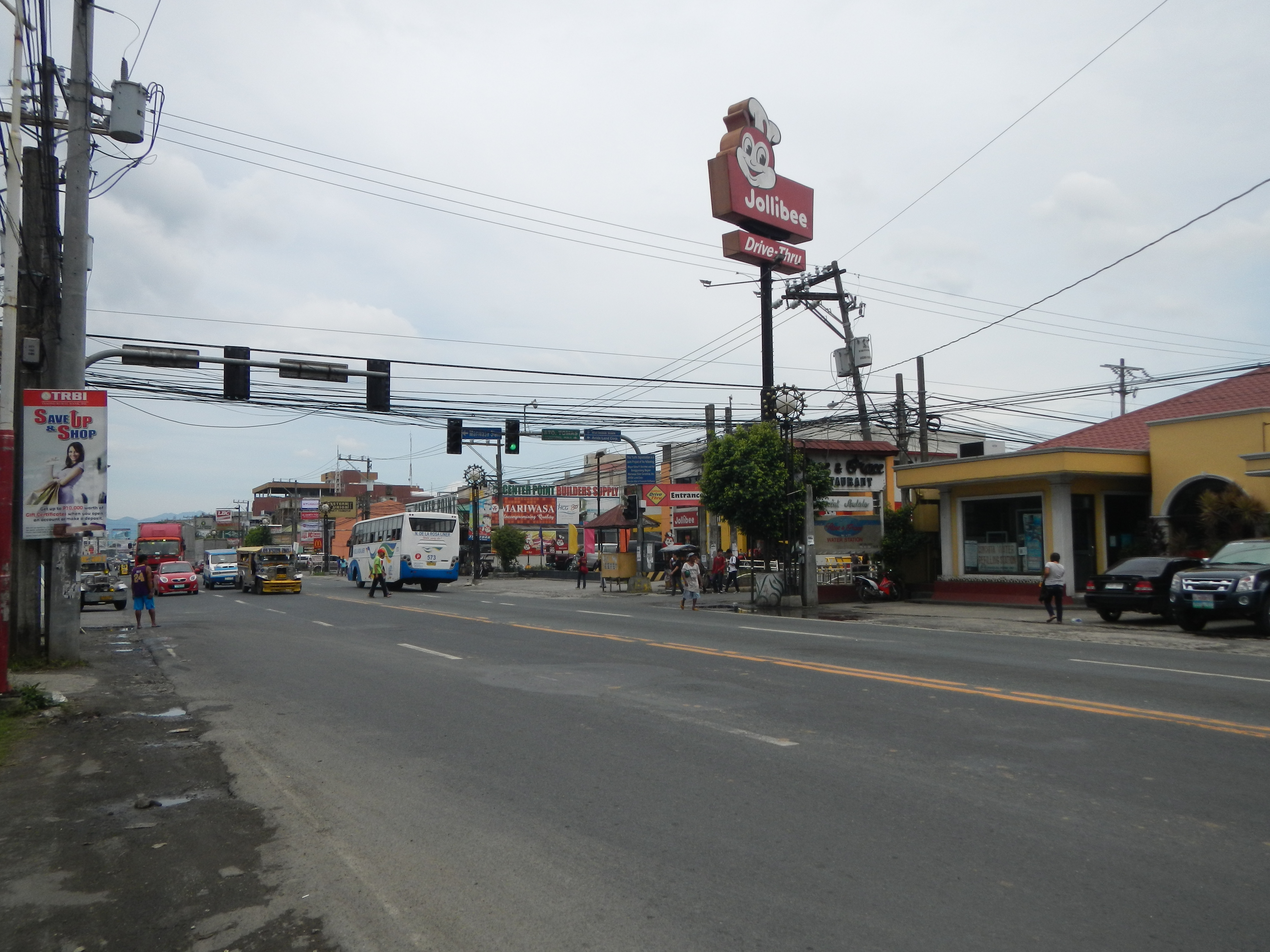 Barangays San Rafael 14°7'42"N 121°9'6"E Santa Anastacia 14°8'6"N 121°8'6"E Santo Tomas, Batangas Light Industry and Science Park 14°8'6"N 121°8'51"E Light Industry and Science Park Light Industry & Science Park of the Philippines III - Pueblo de Oro Batangas (San Rafael, Santo Tomas, Batangas) Science Park of the Philippines, Inc. Manufacturing Economic Zone registered with the Philippine Economic Zone Authority; The Horizon Residences; Park Place; L. Aldea Del Monte along Maharlika Highway (Santo Tomas, Batangas section) Pan-Philippine Highway Santa Anastacia-San Rafael, Santo Tomas, Batangas National High School; First Philippine Industrial Park I (Santa Anastacia, Santo Tomas, Batangas); registered with the Philippine Economic Zone Authority Philippine Economic Zone Authority bounded by the Welcome arch-signs of Batangas Province - Biga Bridge (Maharlika Highway, Santa Anastacia, Santo Tomas, Batangas & Makiling, Calamba) in BarangaysMakiling, Calamba Milagrosa Turbina,_Calamba Poblacion I, Calamba Poblacion II, III, IV, VI and VII, Calamba and Poblacion V, Calamba Calamba, Laguna Poblacion 14°12'32"N 121°9'46"E.